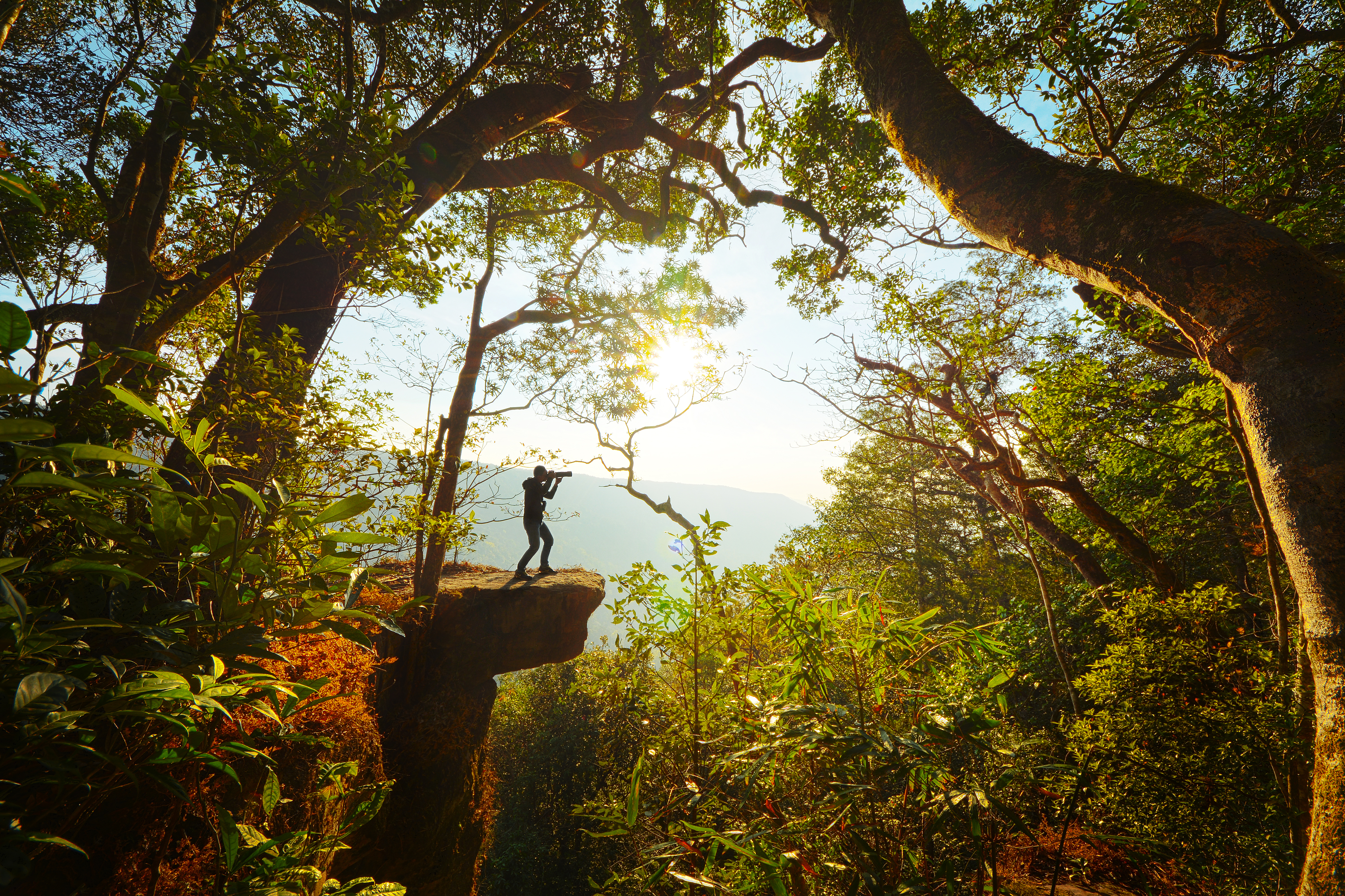 Pha Diao Dai ("Lonely Cliff"), Khao Yai National Park